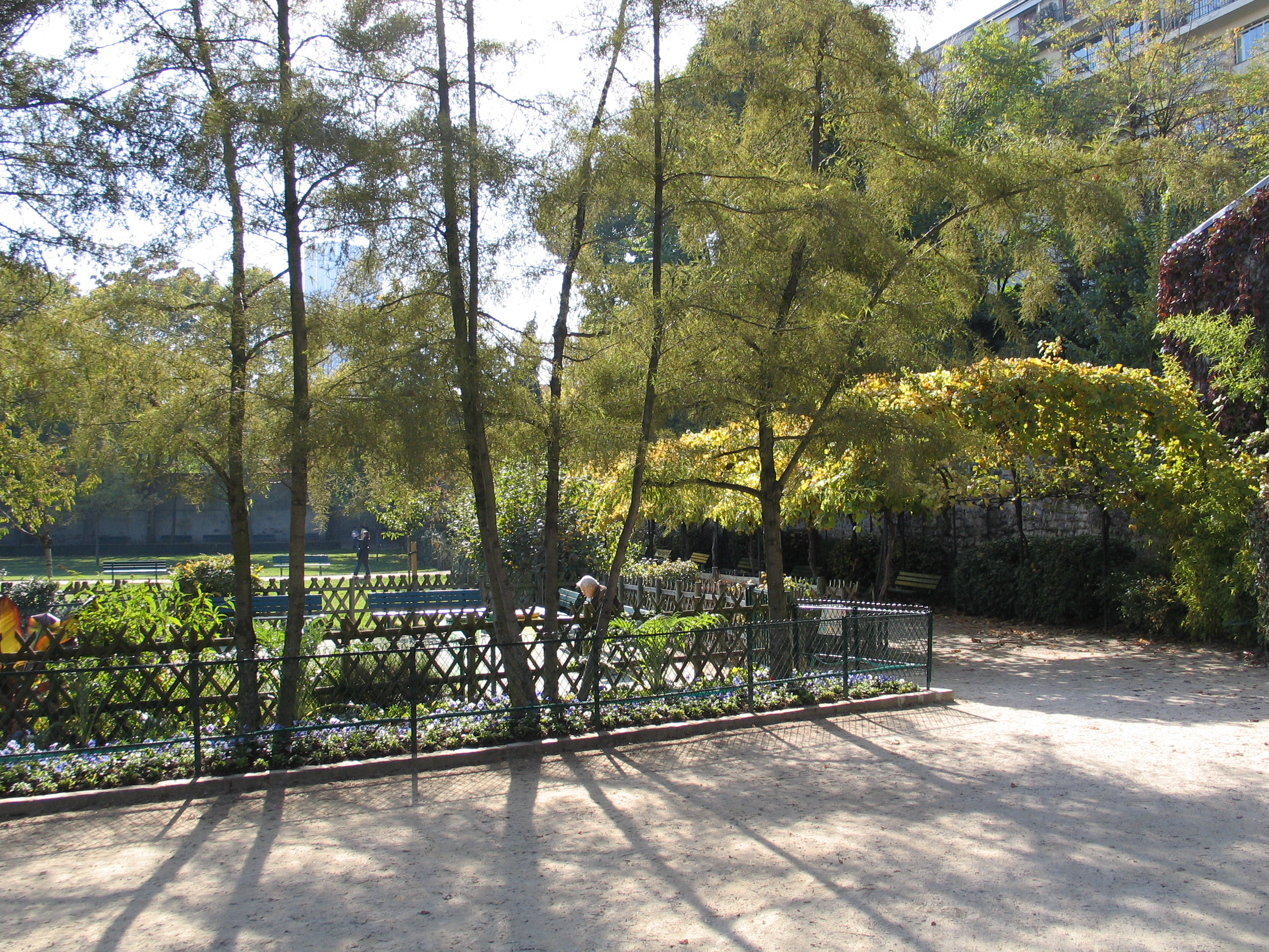 Photo of Jardin Catherine Labouré, Paris, France